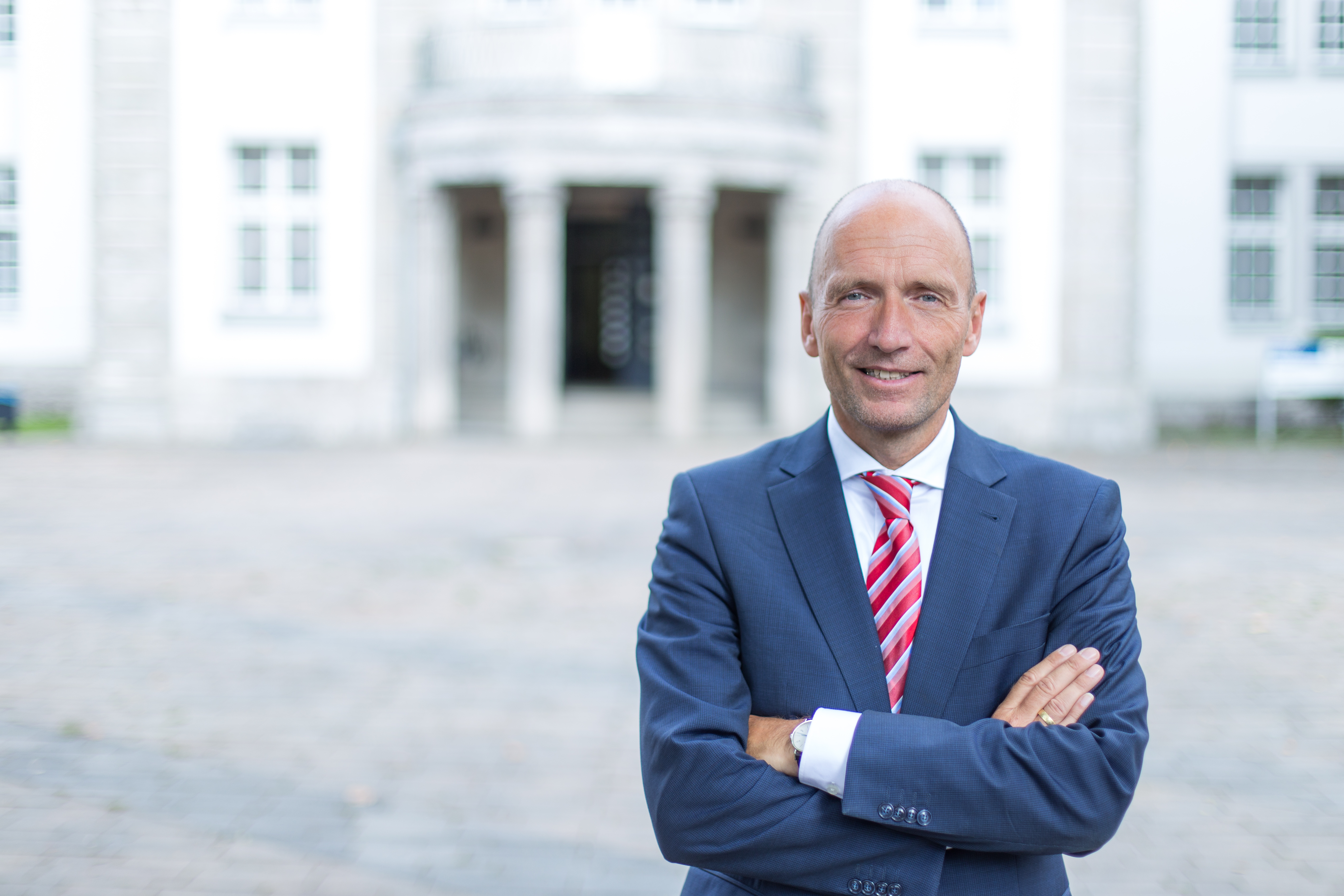 Portrait of Prof. Dr. Volker Gruhn